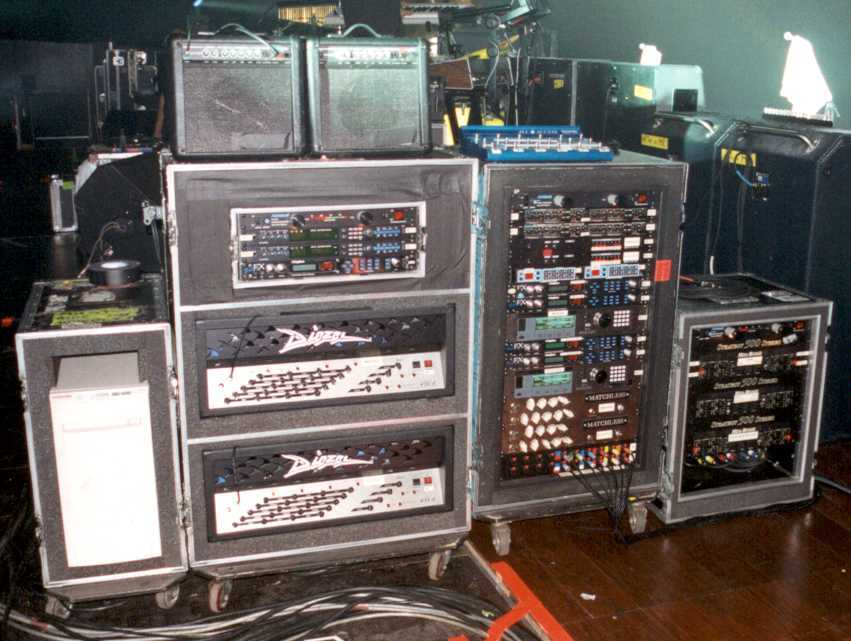 This is a photograph of Billy Corgan's guitar rig taken by his guitar technician, Vegas, who uploaded this original photo.